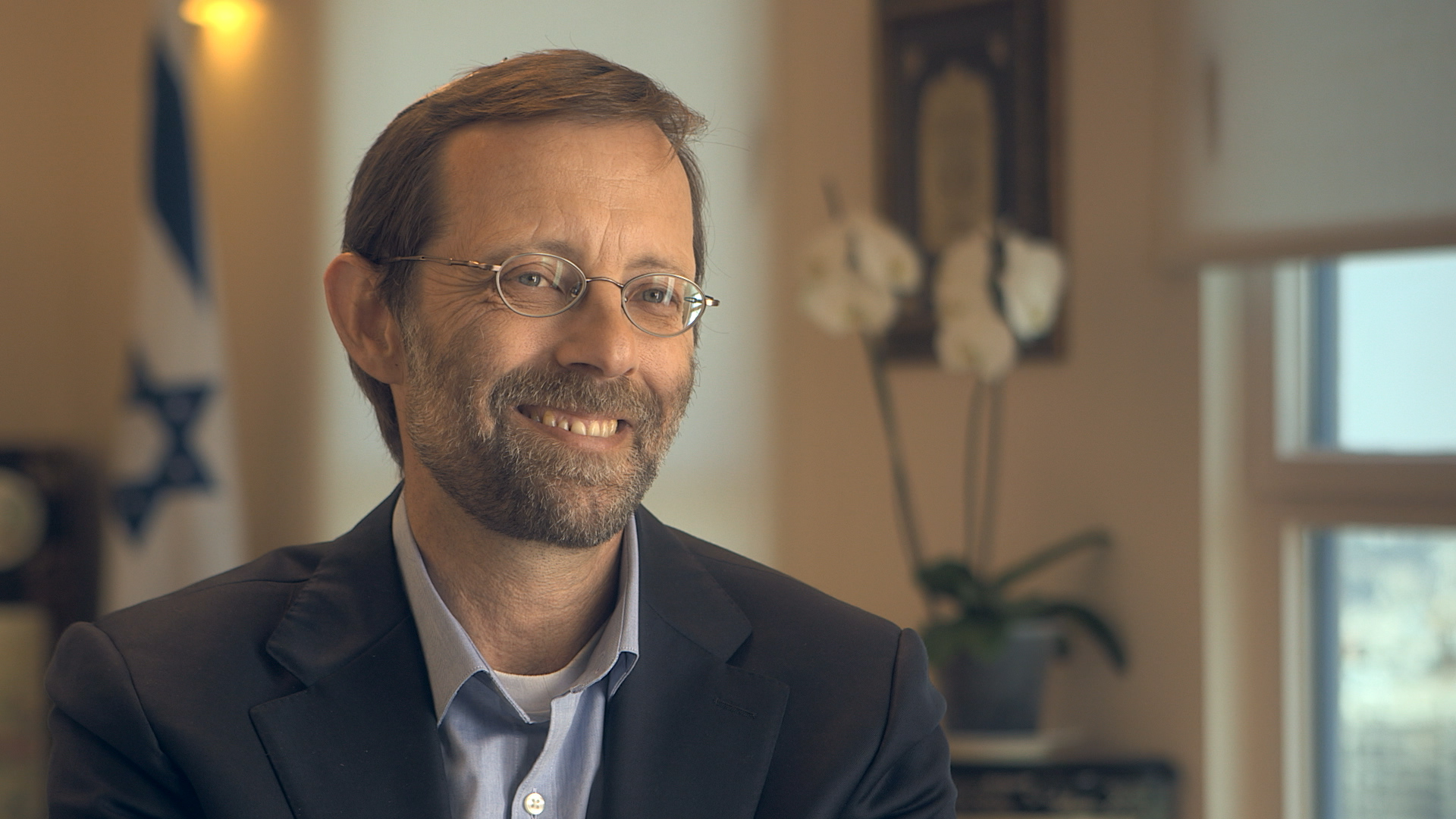 Moshe Feiglin